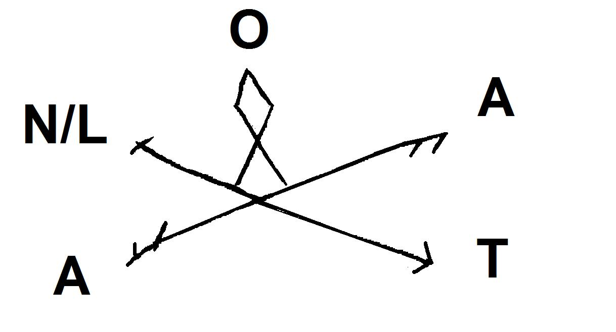 Runes on a merowingian Fibula from Soest (6th century) and possible explanations in latin letters. According to Heinz Ritter-Schaumburg: „Die Nibelungen zogen nordwärts.“ Herbig Verlag, 1981